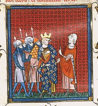 Louis le Gros parleying with Thibaut